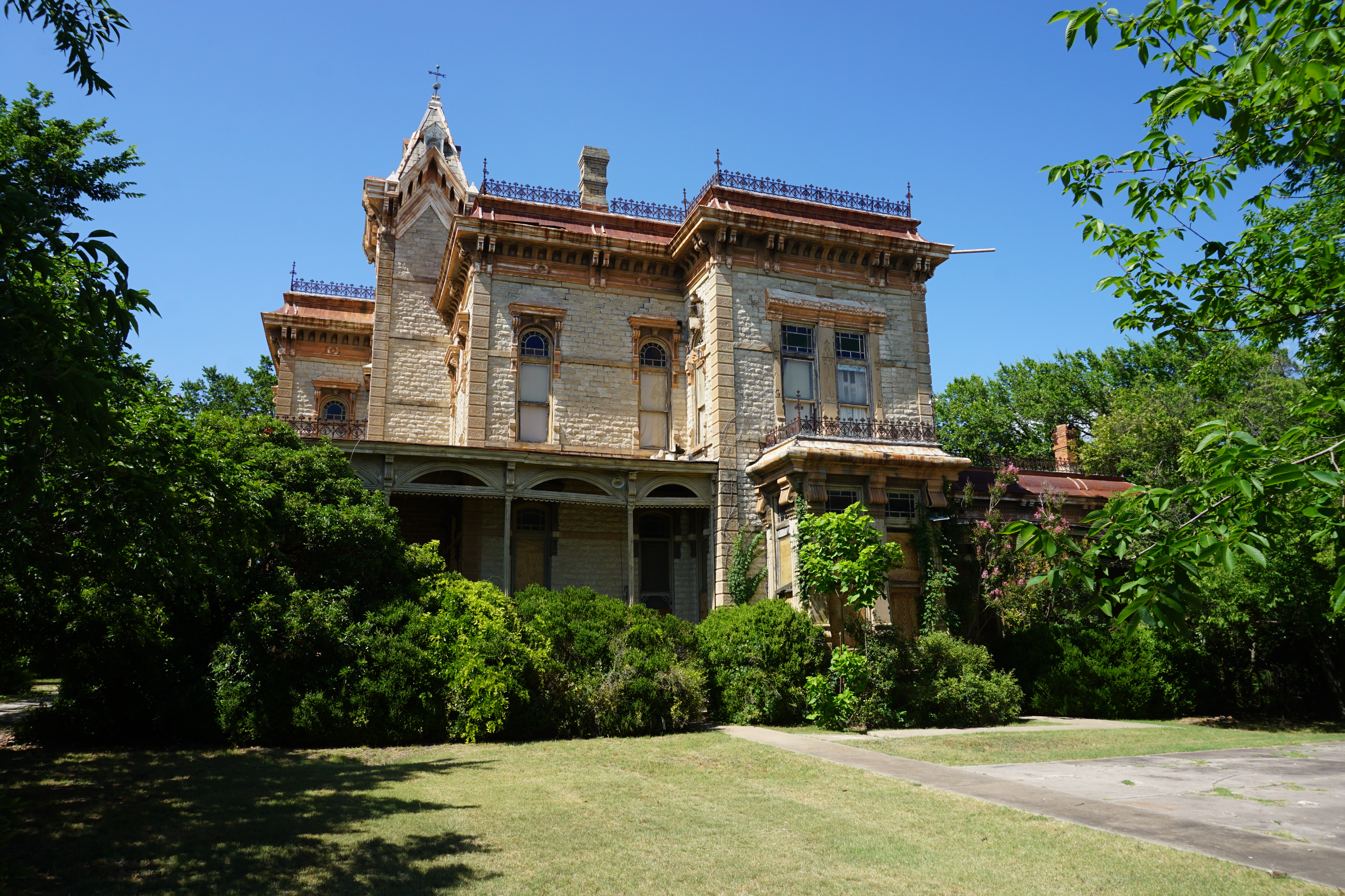 The Waggoner Mansion in Decatur, Texas (United States).